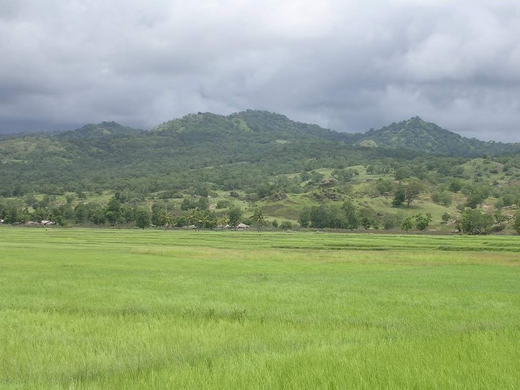 Vemasse rice crop ready to harvest, with dry forest on hills